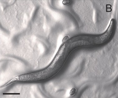 P. pacificus WT un-ablated